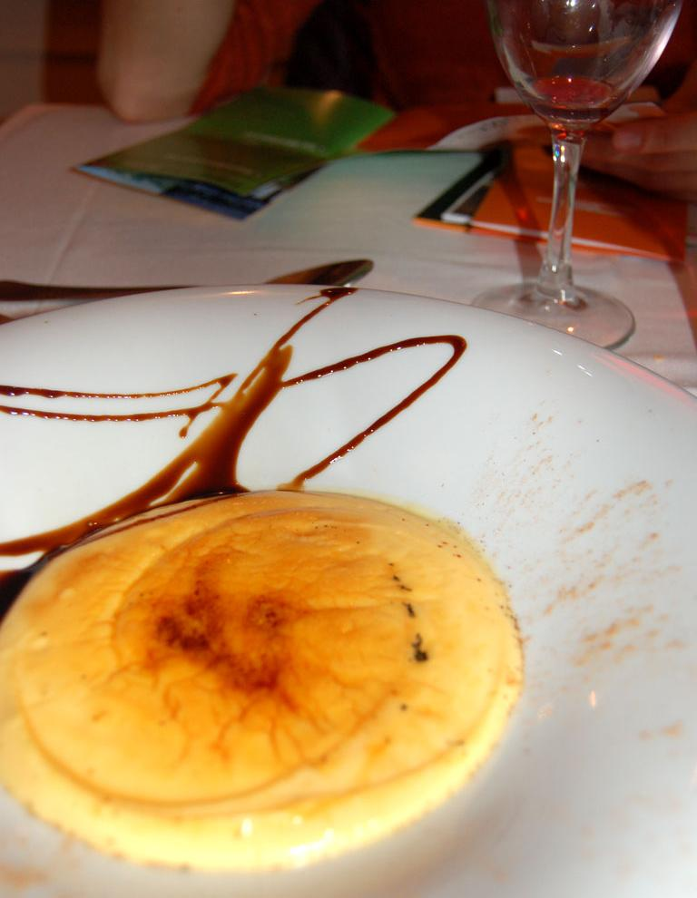 No header version of Image:Cremacatalana.jpg (deleted). That image is in public domain so it's allowed to modify the image and remove the top bar.